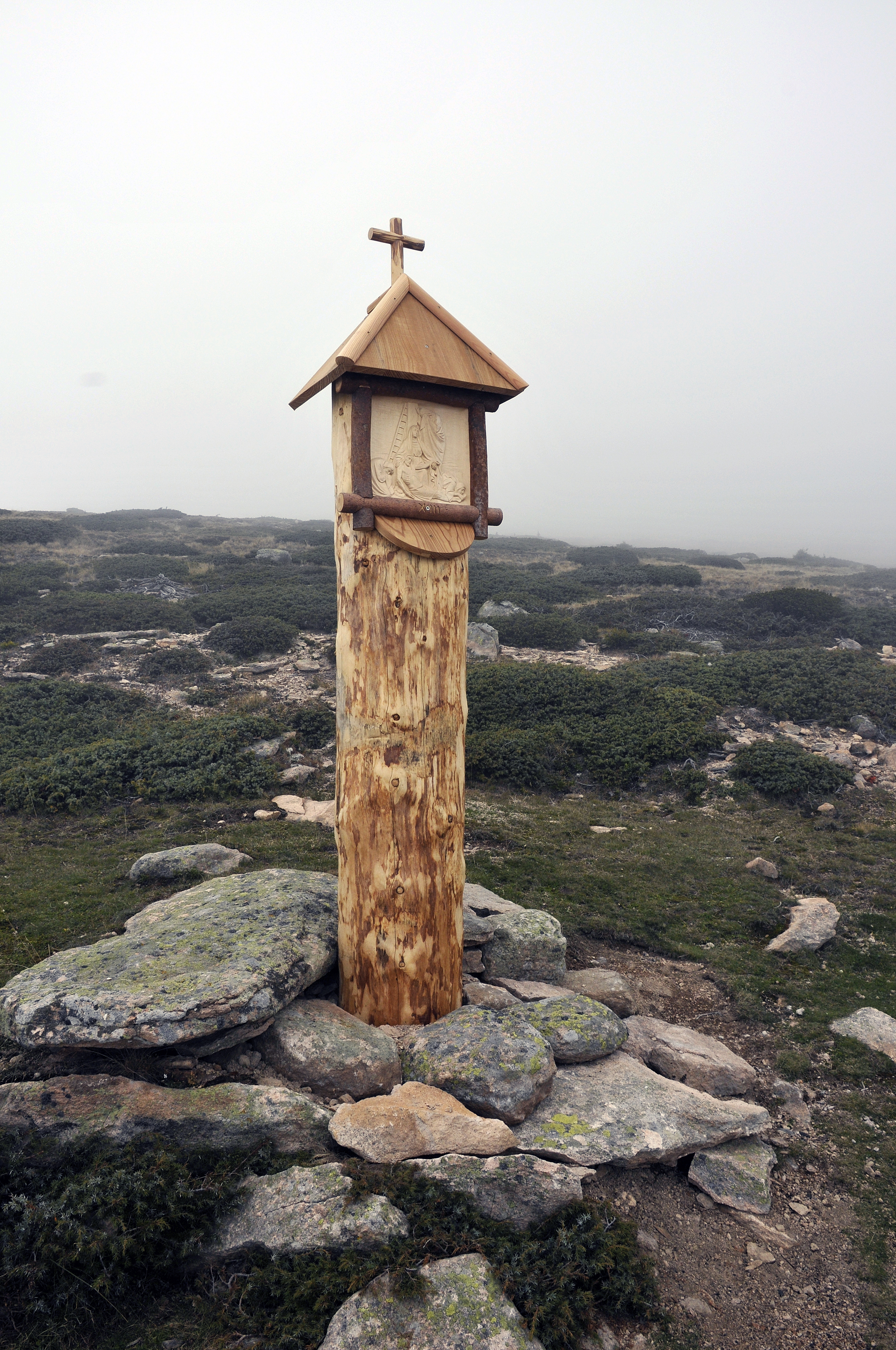 13th station of the cross on Raschötz over Urtijei